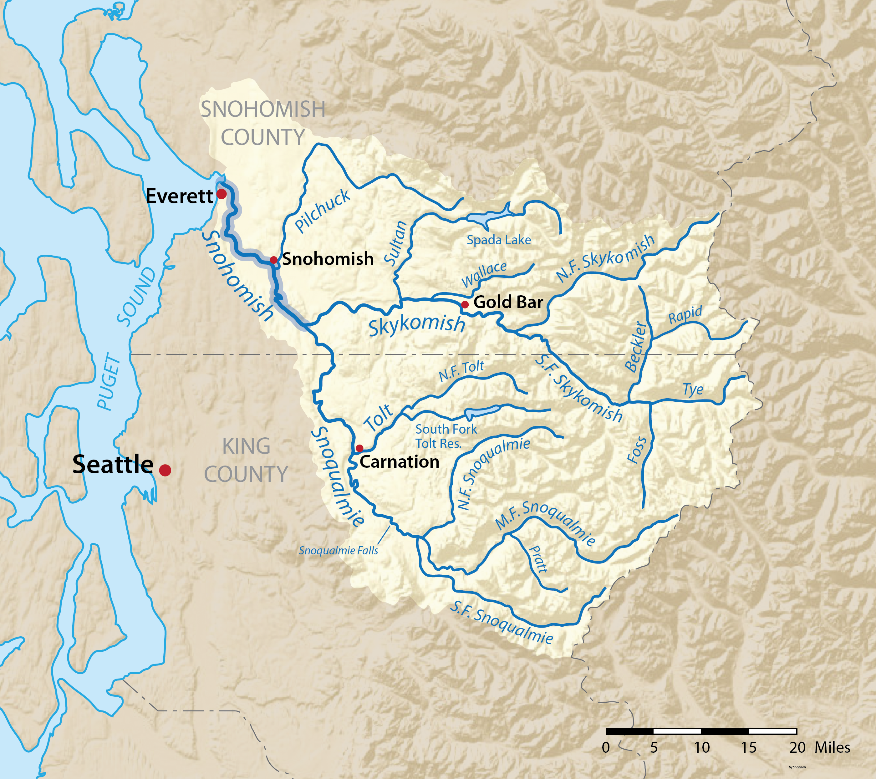 Map of the Snohomish River watershed in Washington, USA with the Snohomish River highlighted. Made using USGS National Map data. Replacement for File:Snohomishrivermap.jpg.